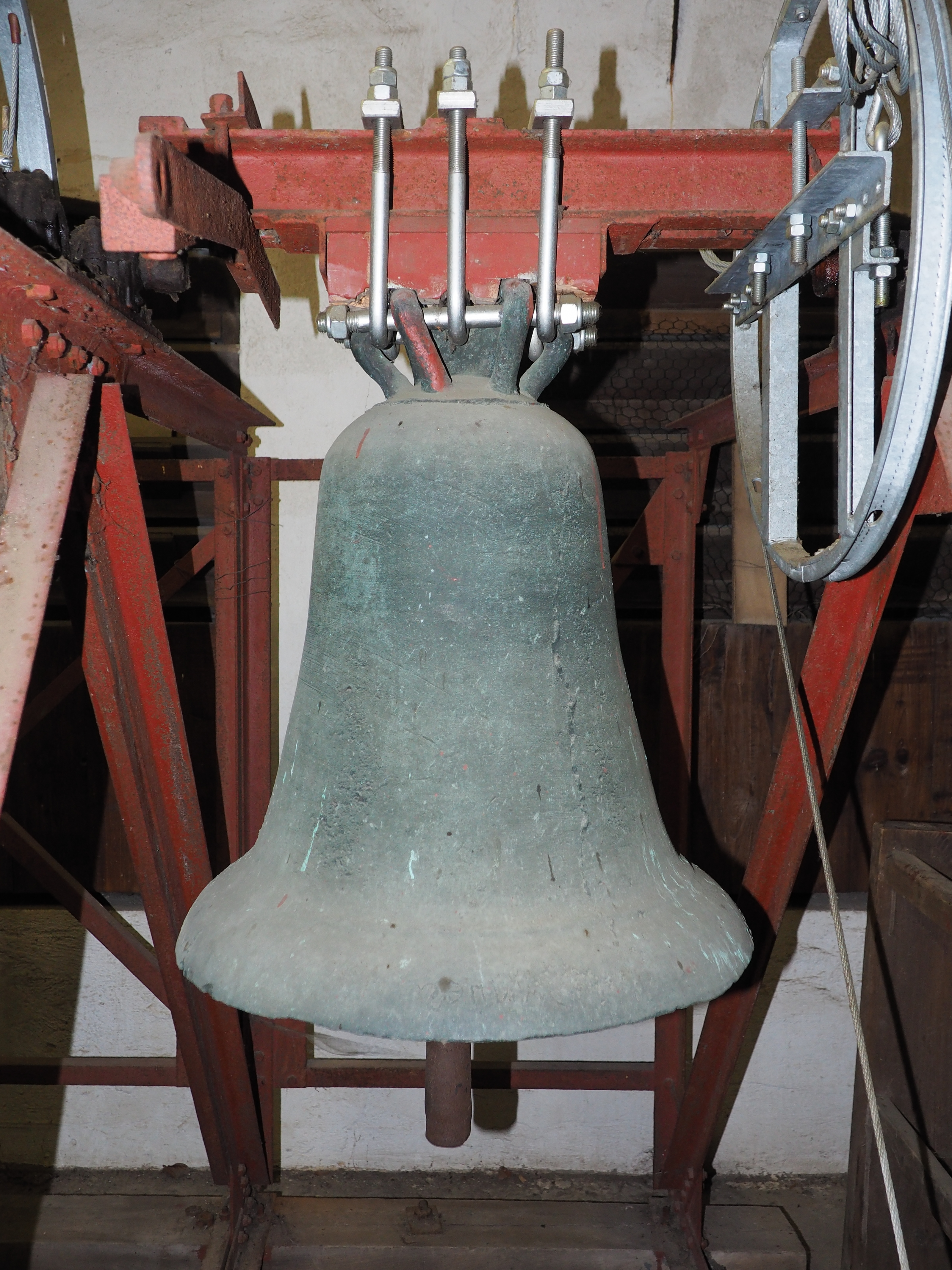 Bell #4 of the protestant church of Schöffengrund-Niederwetz